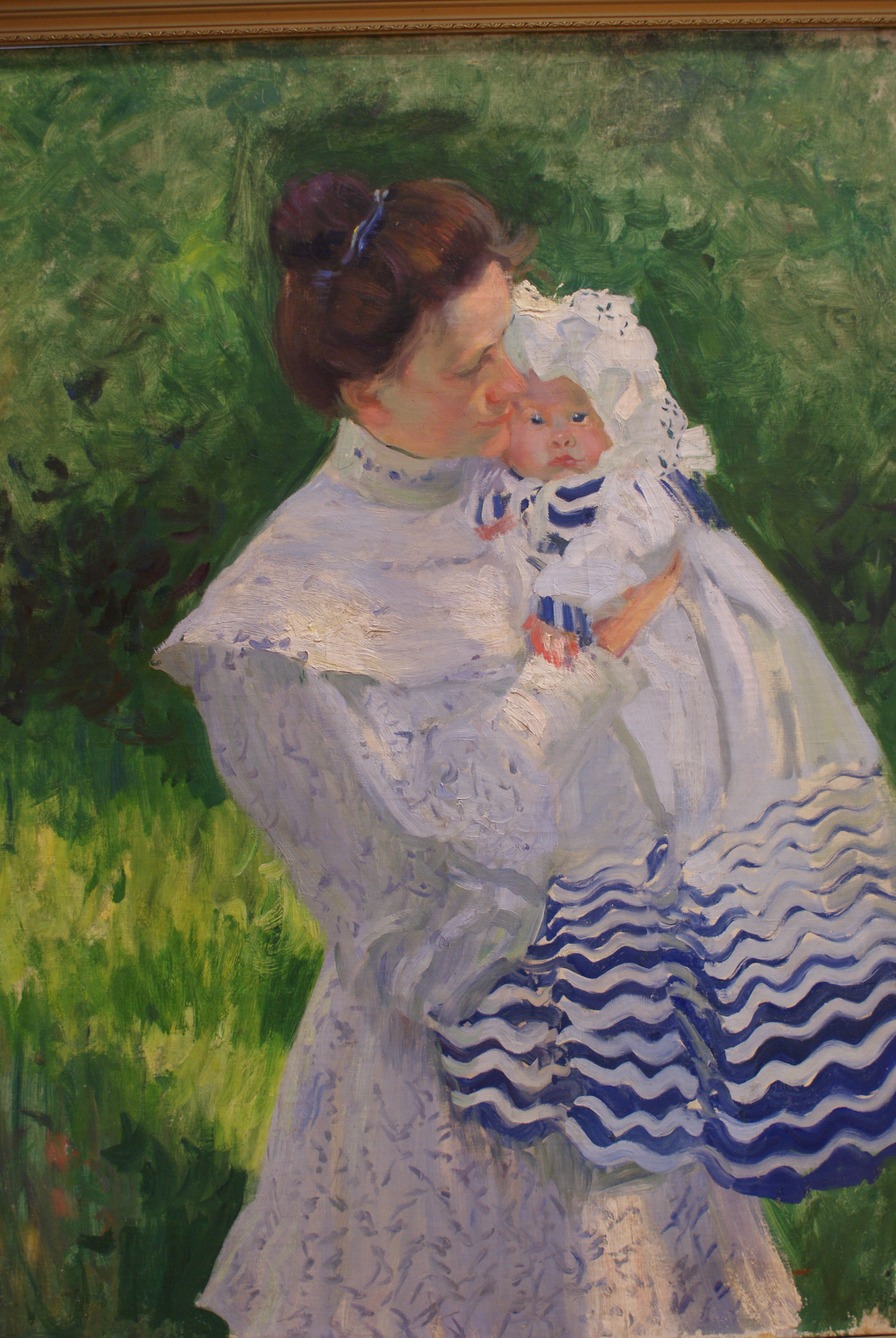 Boris Kustodiev. Yuliya Kustodieva with her daughter